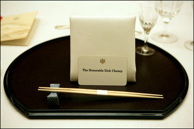 A place setting for Vice President Dick Cheney is seen Feb. 21, 2007 at a dinner hosted by Prime Minister of Japan Shinzo Abe at the prime minister's residence in Tokyo.